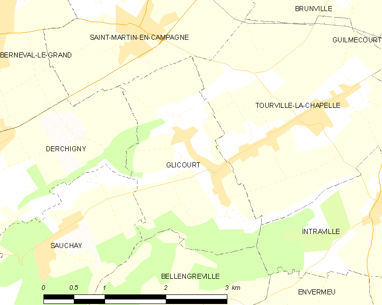 Map of French municipality Glicourt